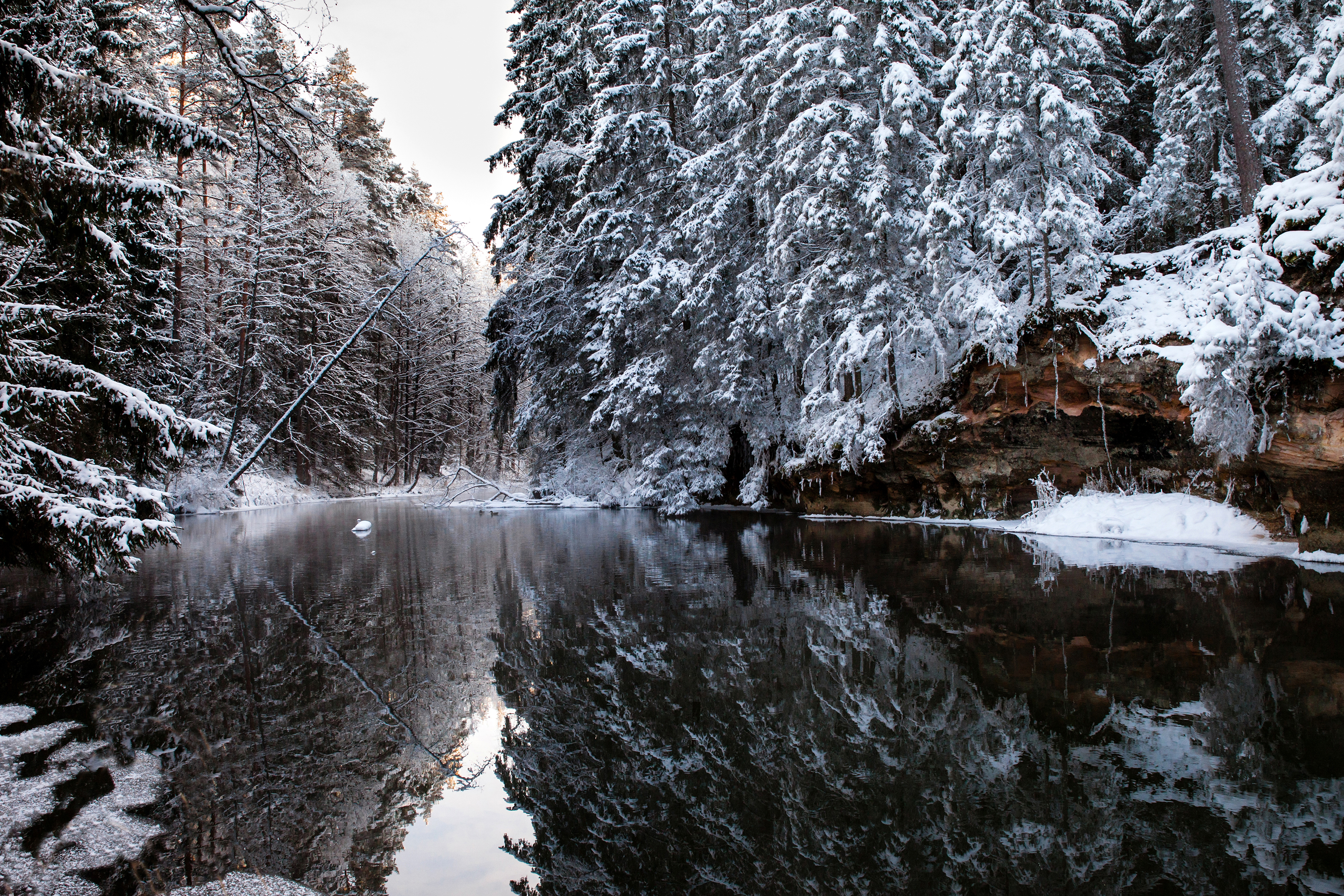 Ahja river valley. Väike-Taevaskoda, Põlva County, Estonia.